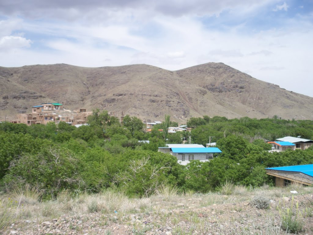 دهکده قران کریم